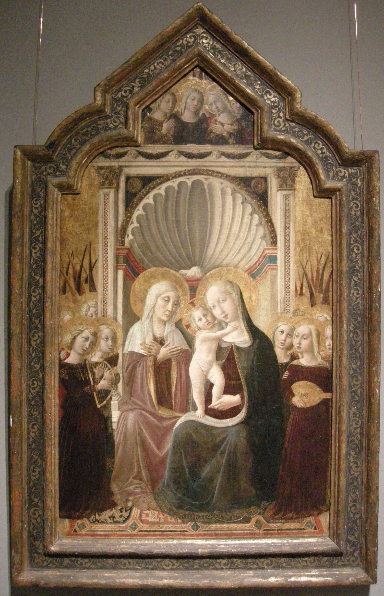 Saint Anne and the Virgin and Child Enthroned with Angels